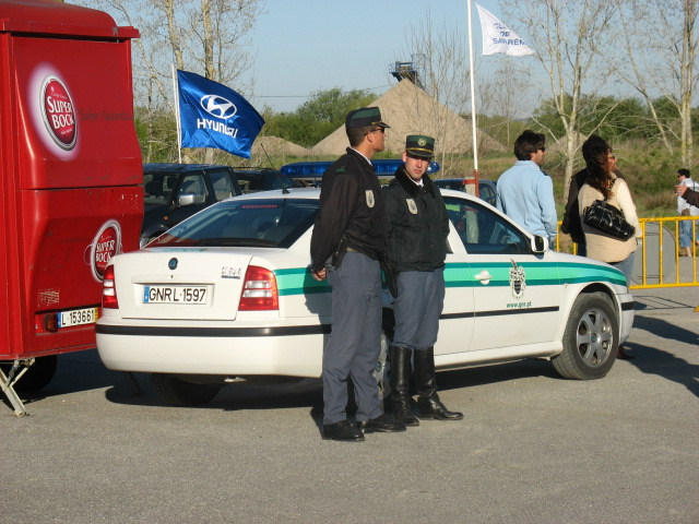 Portuguese National Republican Guard on patrol